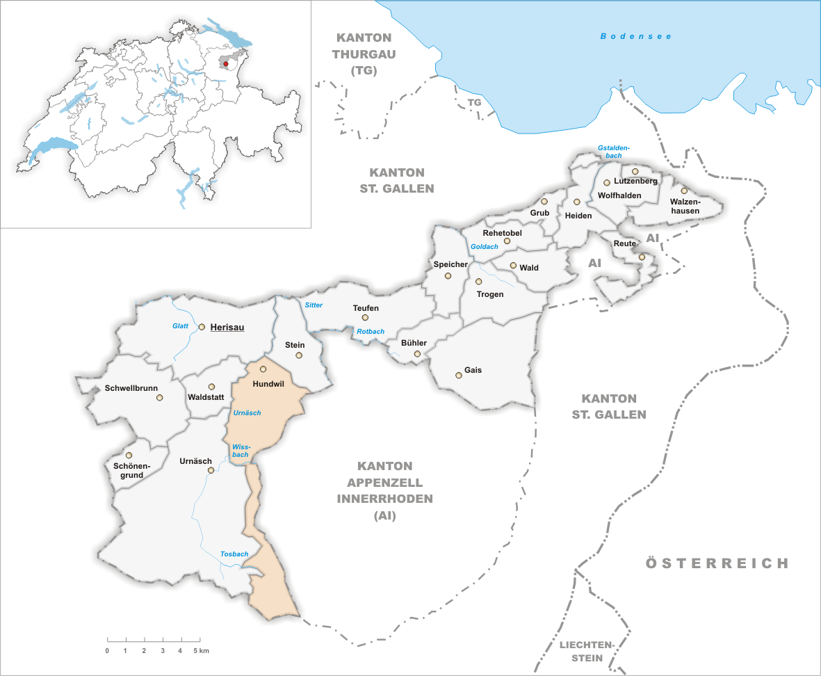 Municipality of Hundwil